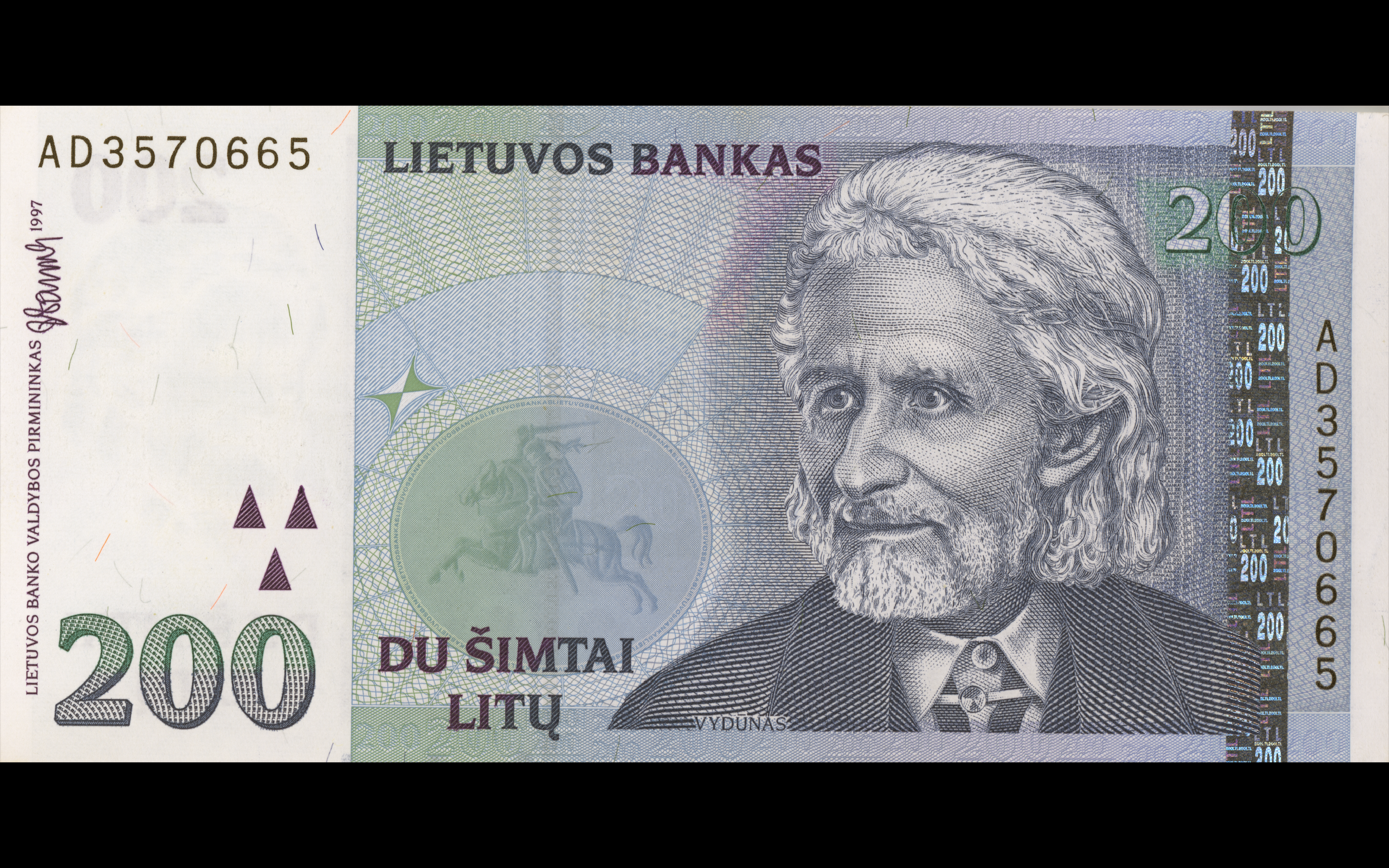 Front side of a 200 LTL banknote of now defunct currency Lithuanian litas (LTL)